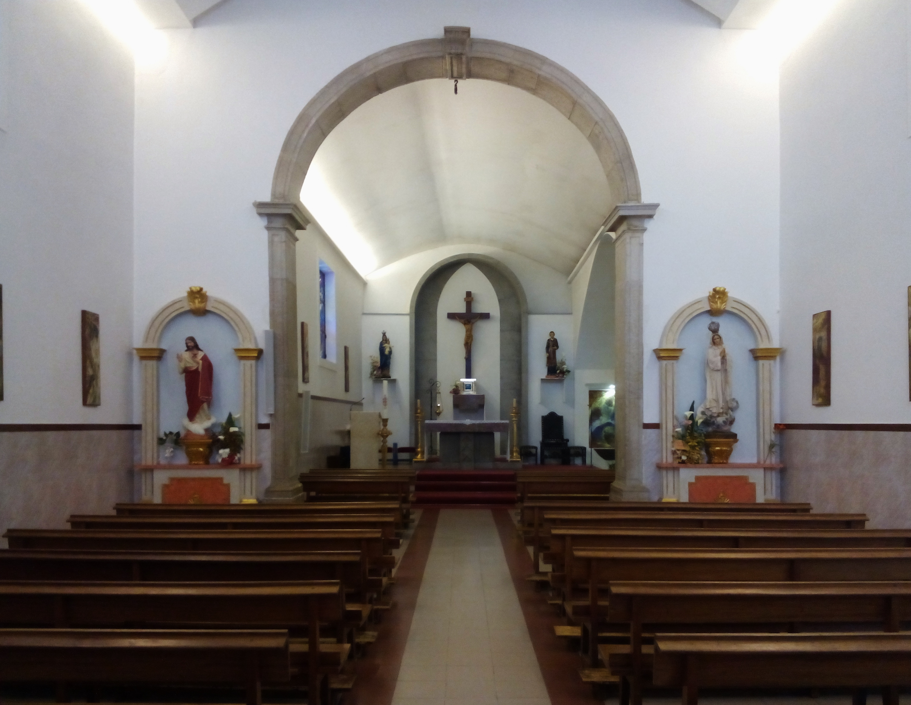 Main nave of the Church of Nossa Senhora da Graça, in Corroios, Seixal, Portugal